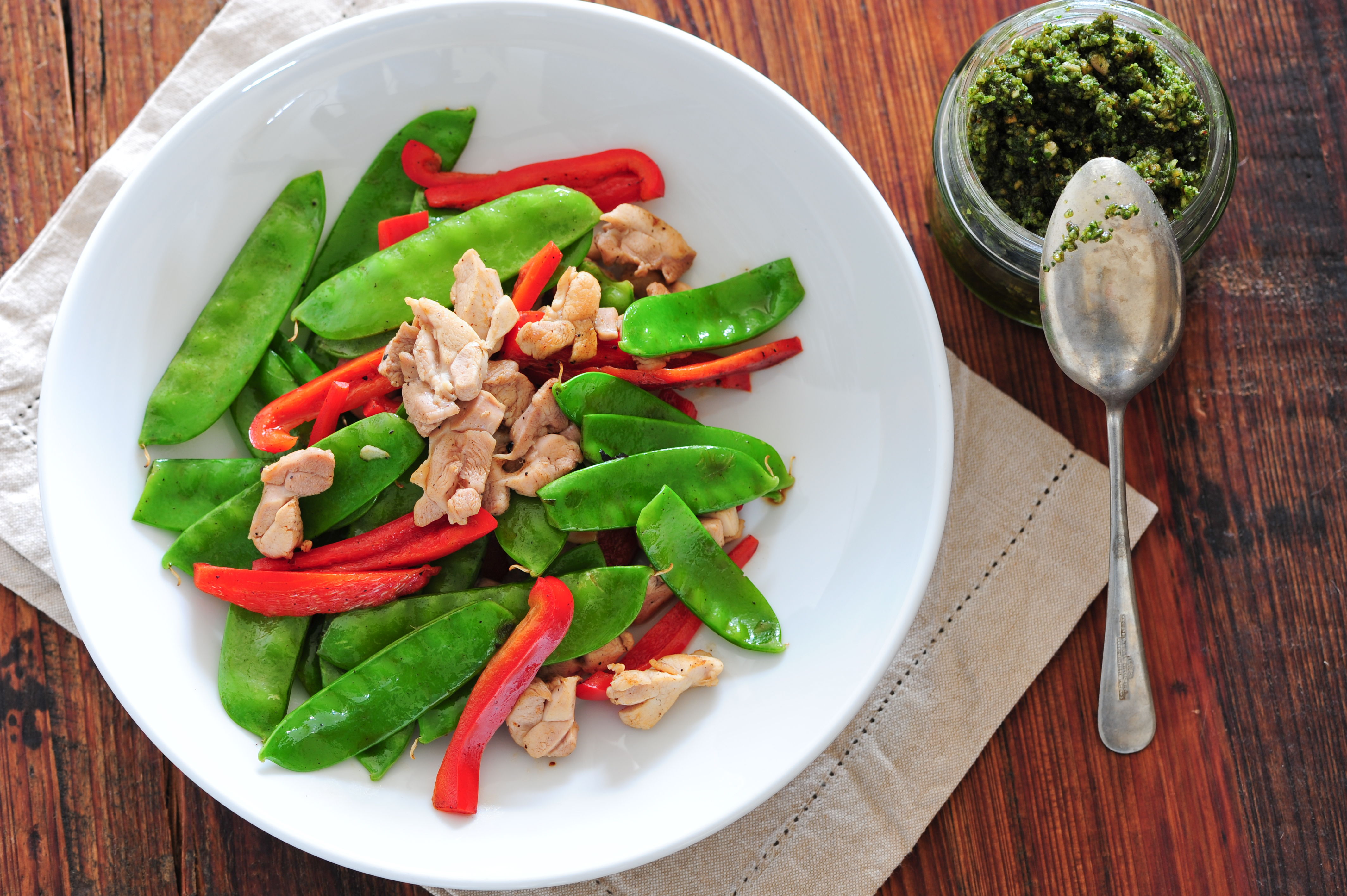 italian stir fry-3